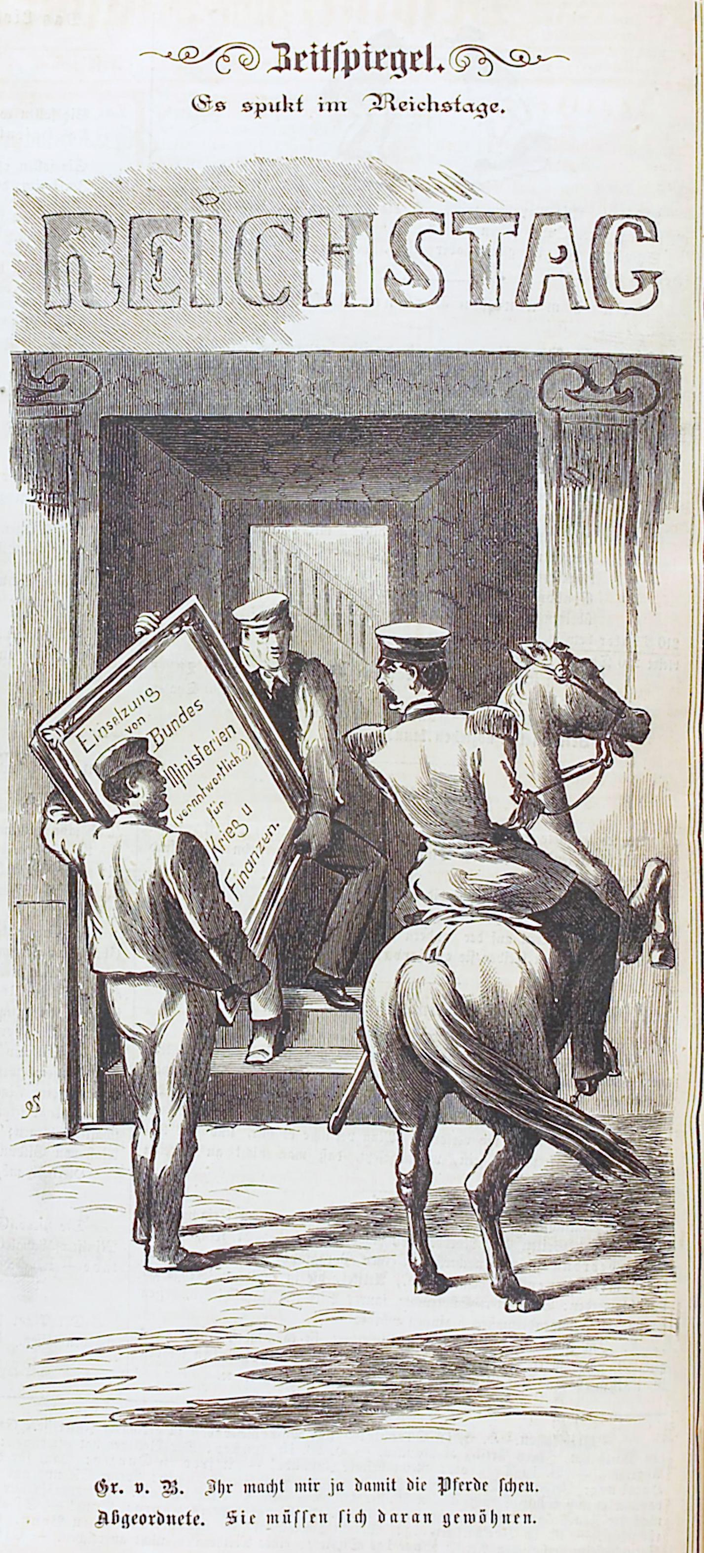 Karikatur, Kladderadatsch.